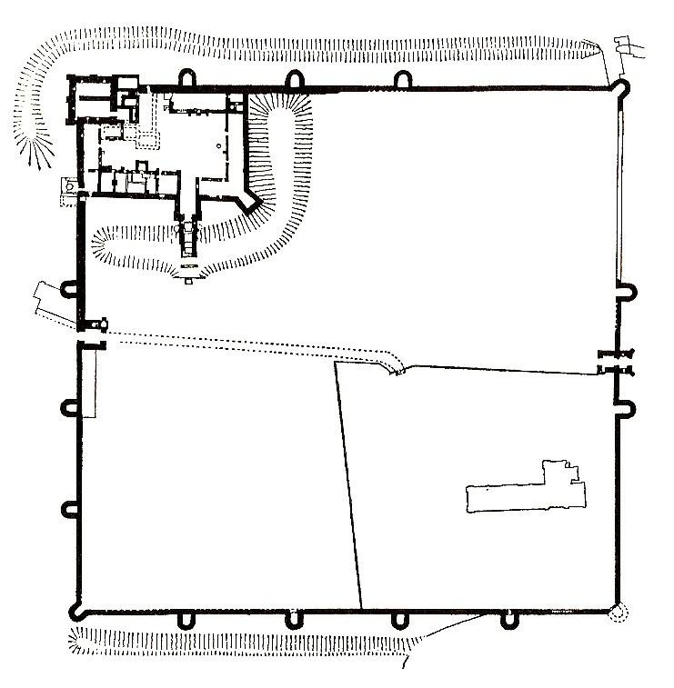 Plan of Portchester Castle